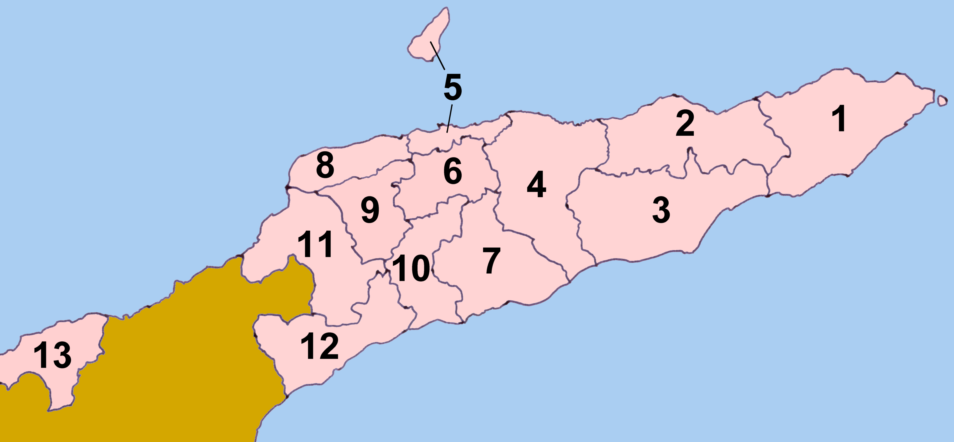 Municipalities of East Timor after reformation of the borders 2003.